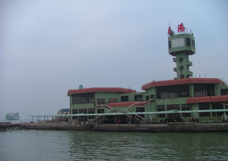 Hoi-on Harbour, Tsuiman, Kwangtung 粵語: 廣東徐聞海安港